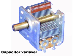 A variable capacitor